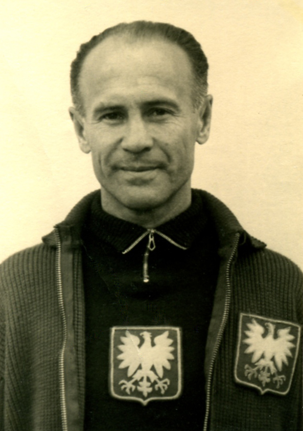 Famous Polish Fencer